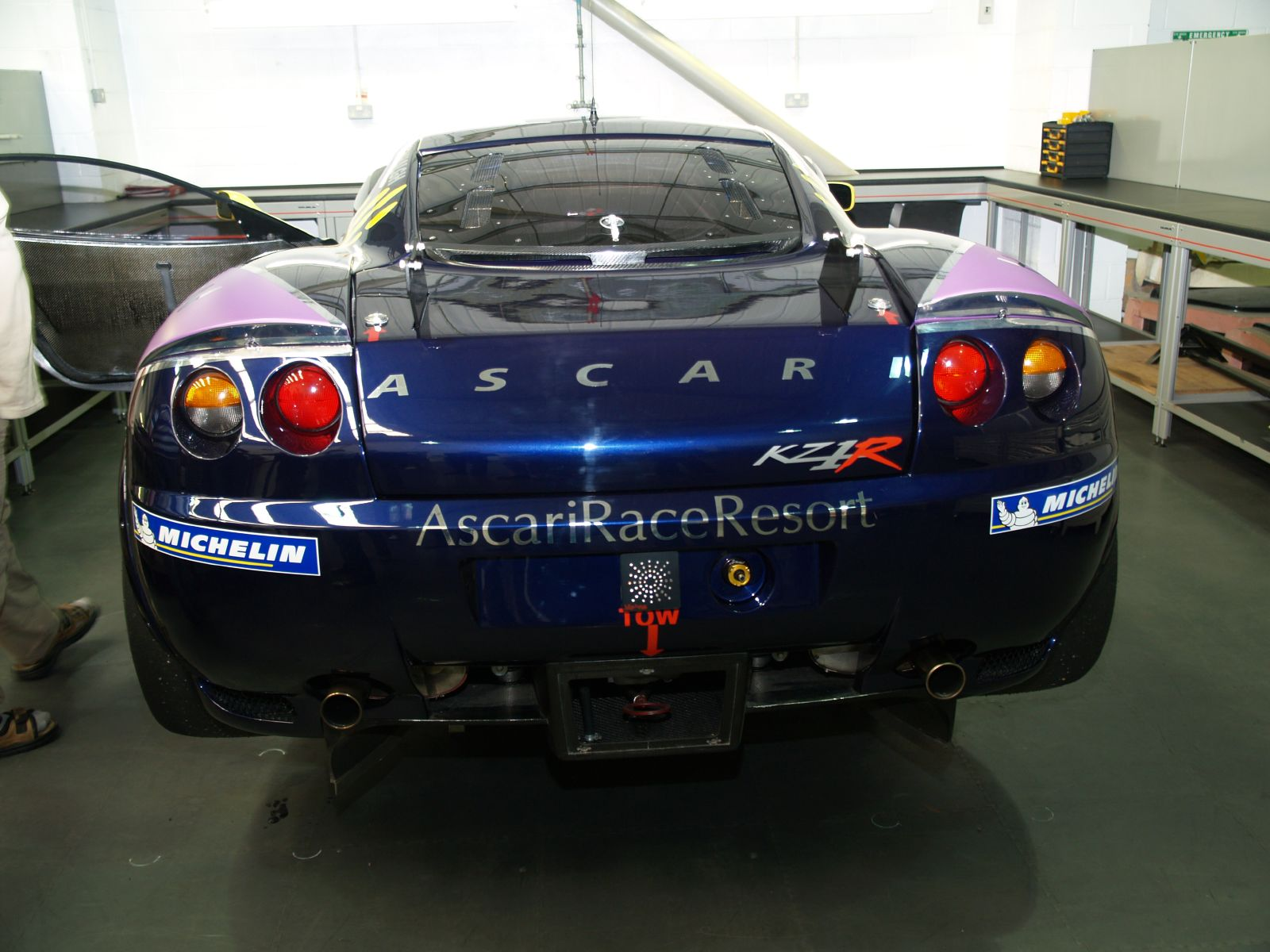 An Ascari KZ1R GT3 at the Ascari Race Resort